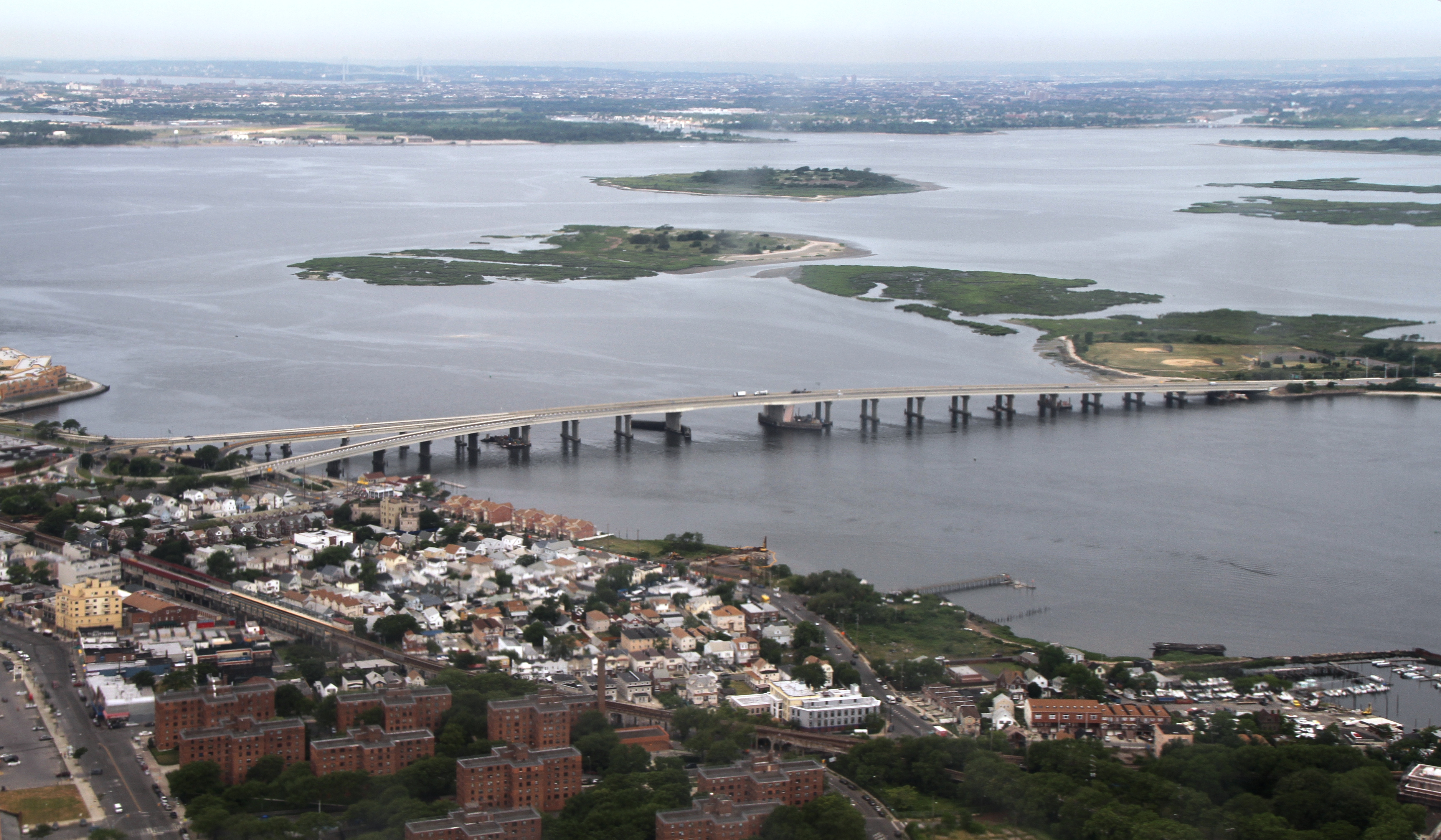 Jamaica Bay and district of New York (Queens), at Long Island , close by the John F Kennedy Airport.